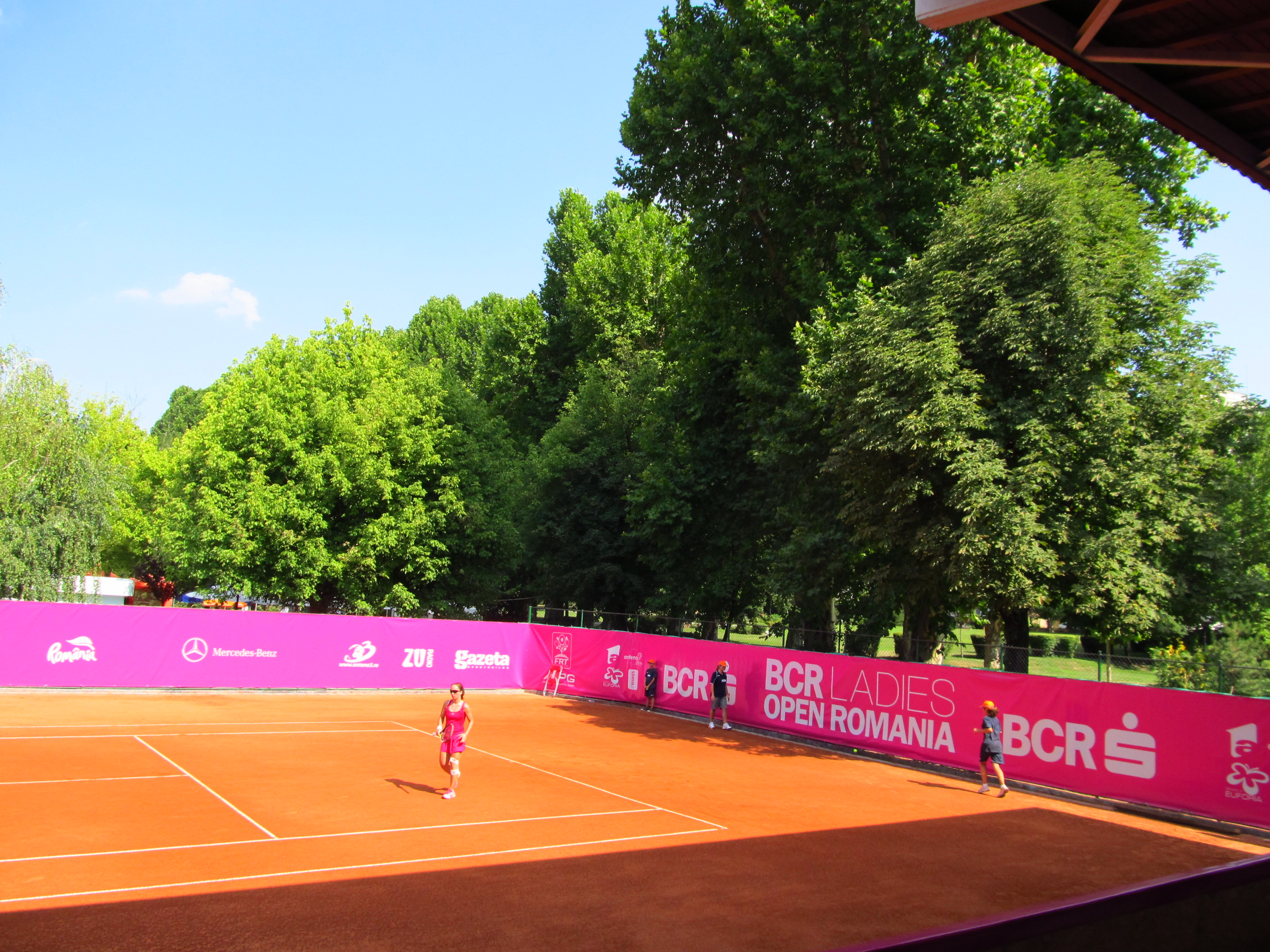 Agnes Szatmari on Court No. 1 at the 2012 BCR Open Romania Ladies